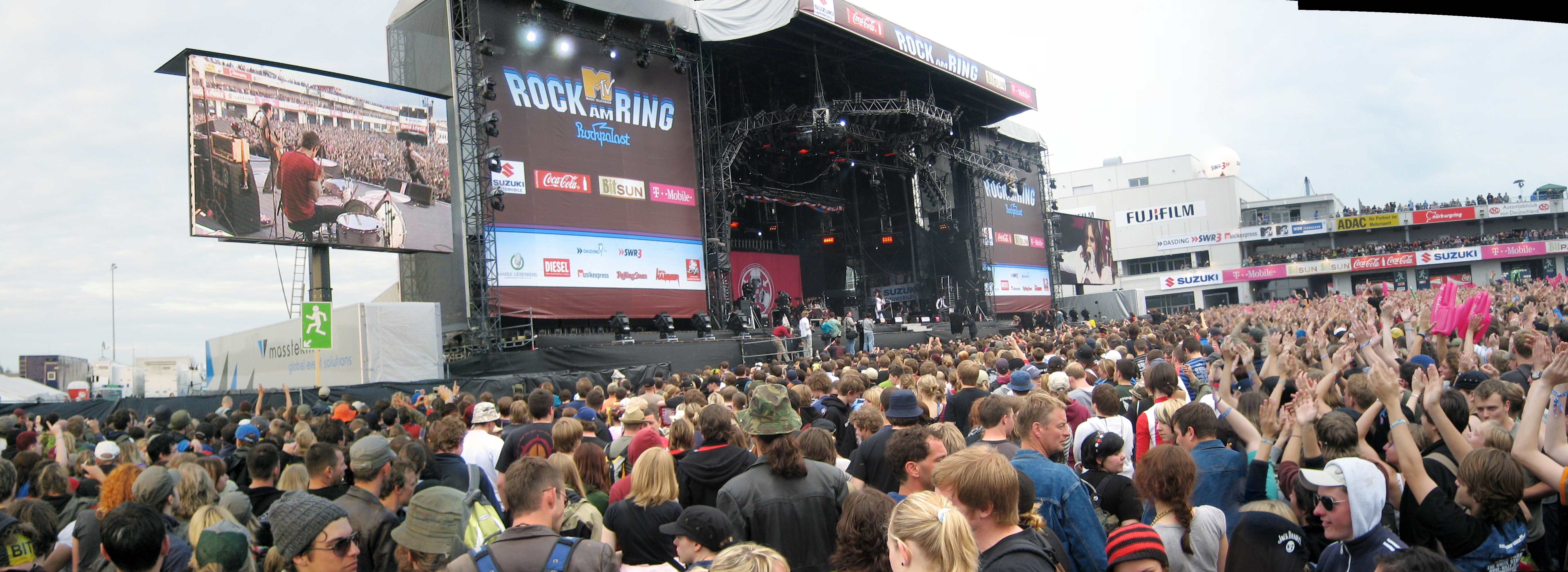 Rock Am Ring main stage 2007, during 30 Seconds from Mars. Combination of three Flickr images, sources are here, here and here.